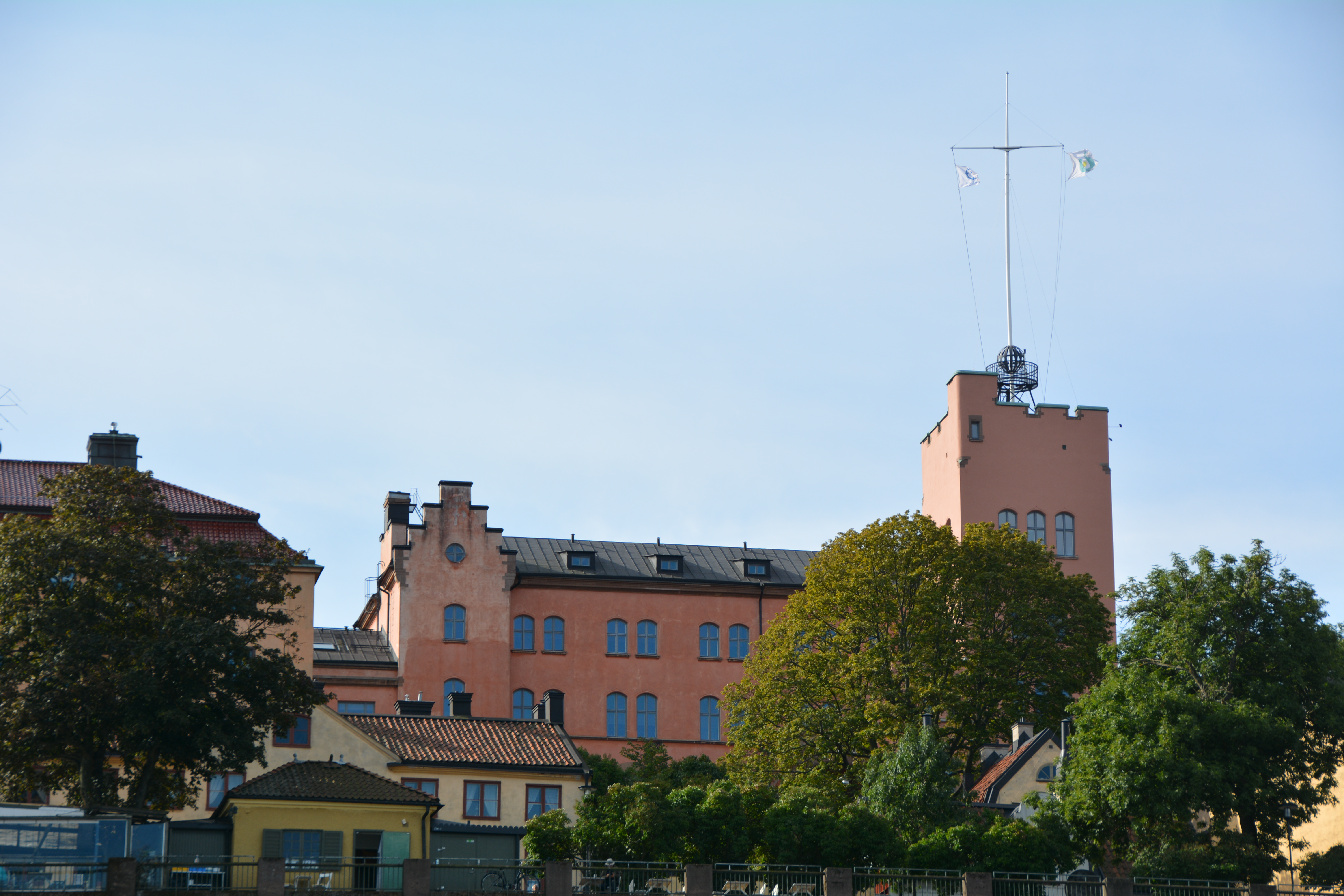 Navigationsskolan, sedd från Saltsjön